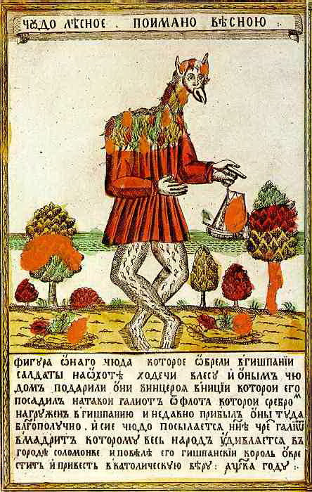 Lubok. "Wood monster, catched in spring"